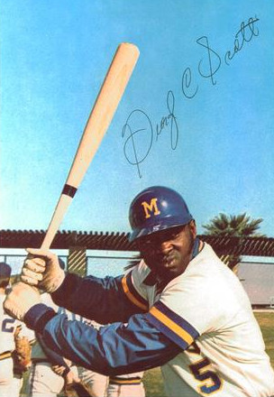 Professional baseball player George Scott